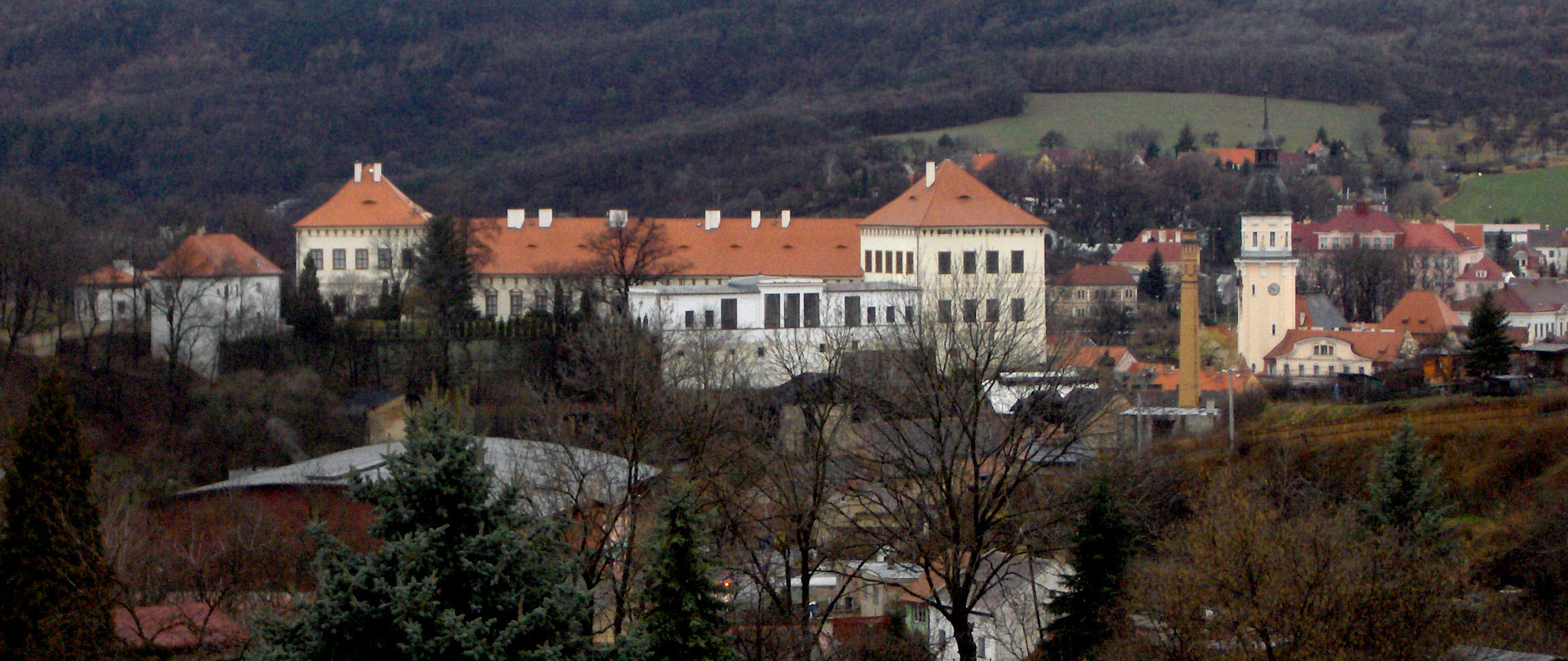 The dominants of Bilina town - castle and tower of town hall.